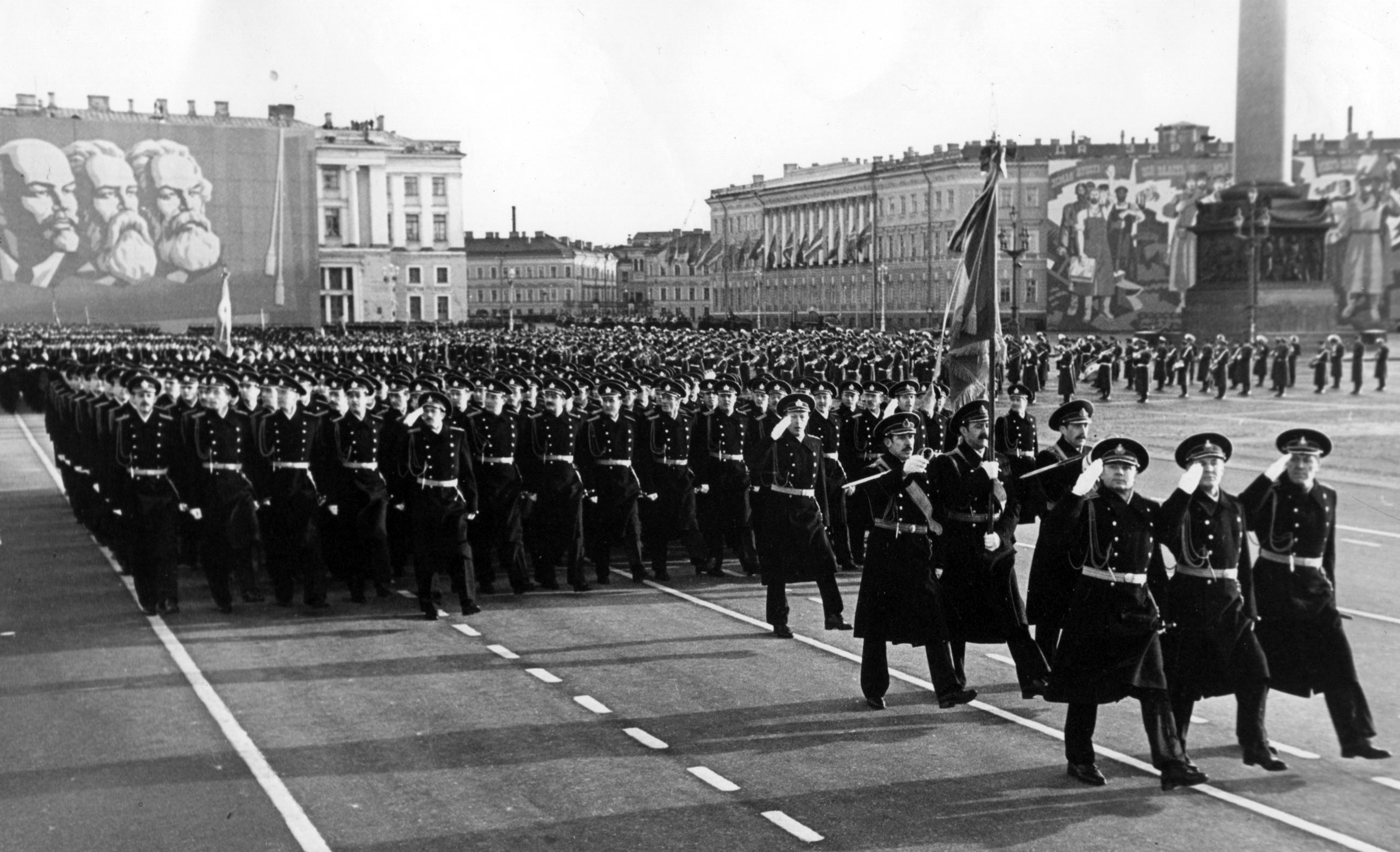 Soviet Union A.A. Grechko Naval Academy team